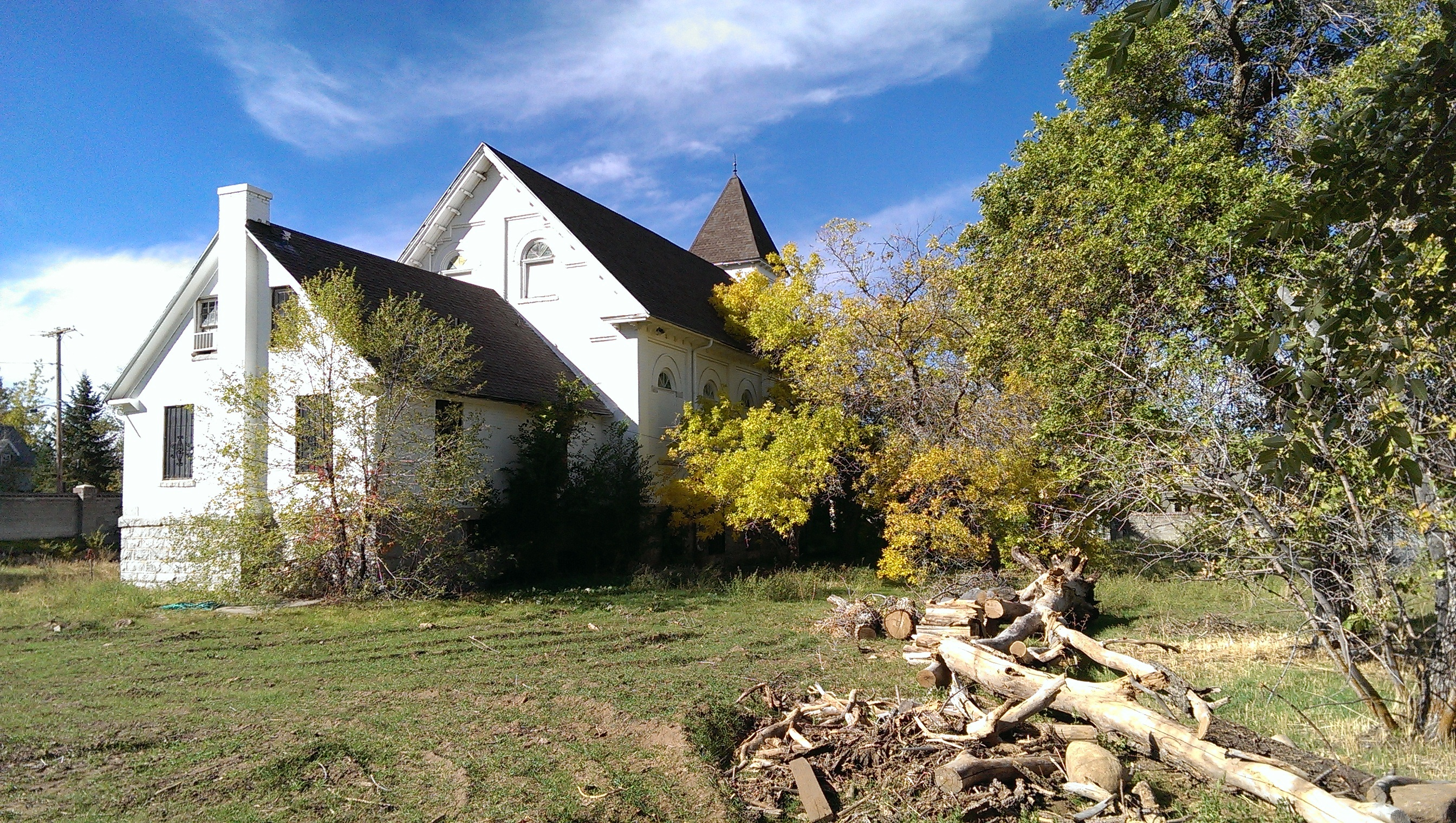 View of the Backside of the Chapel, depicts the addition to the back about 1935.